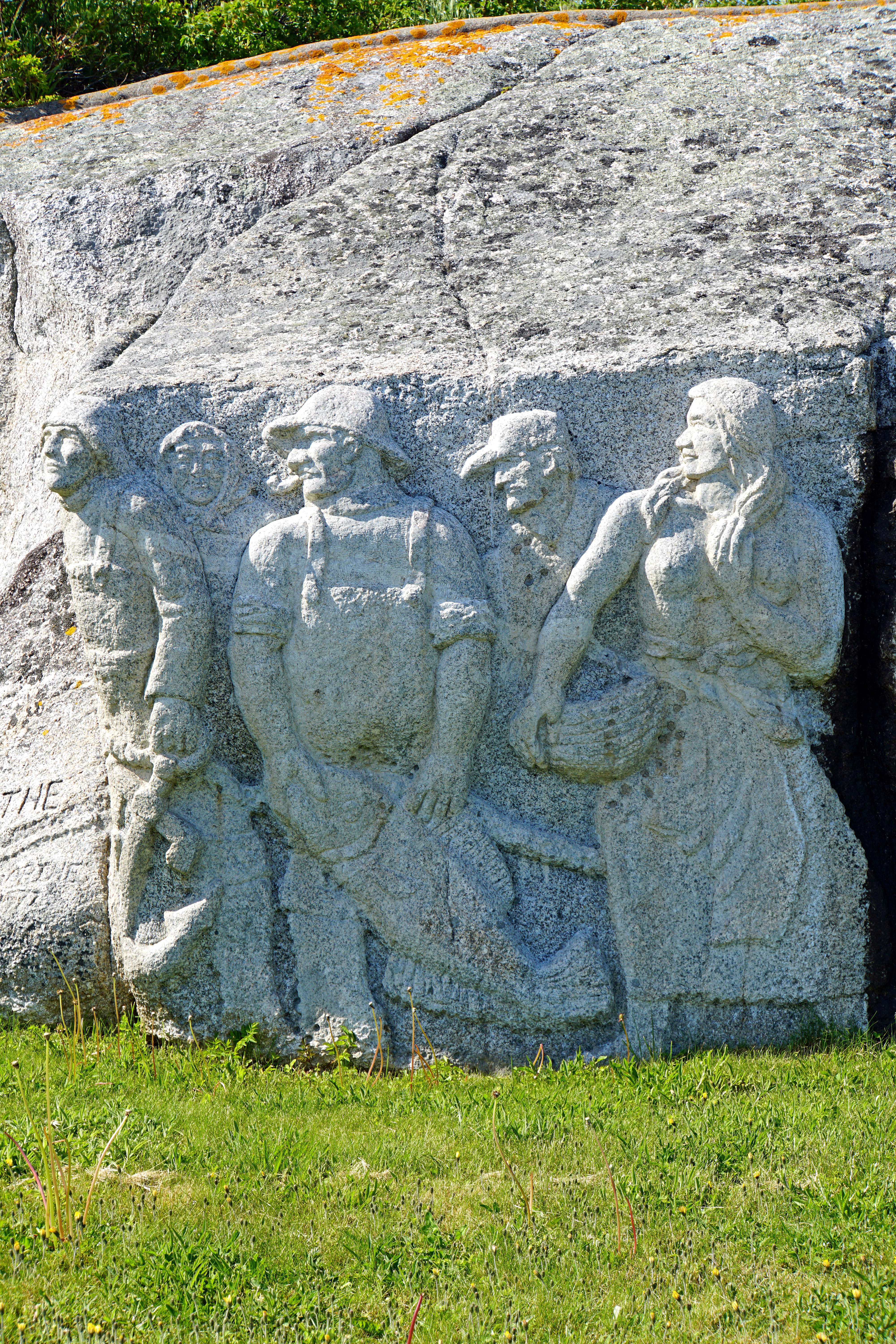 PLEASE, NO invitations or self promotions, THEY WILL BE DELETED. My photos are FREE to use, just give me credit and it would be nice if you let me know, thanks. Bounty, celebrates the riches of the sea - the fish so essential to the survival of this community. The highlight here is the young woman carrying a basket. It’s the famous “Peggy” who some say inspired the name of this cove. Tragedy of Peggy: Some people tell the tale of a young woman named Margaret who, after being rescued from a shipwreck, settled here and fell in love with one of her rescuers. Nicknamed Peggy, this legendary woman was a source of inspiration for deGarthe. This monument is carved out of a granite rock and is over 30.5 m (100 ft) long, it was done by the artist deGarthe. There are carvings of 32 fishermen with their wives and children as well as "Peggy" of the cove.